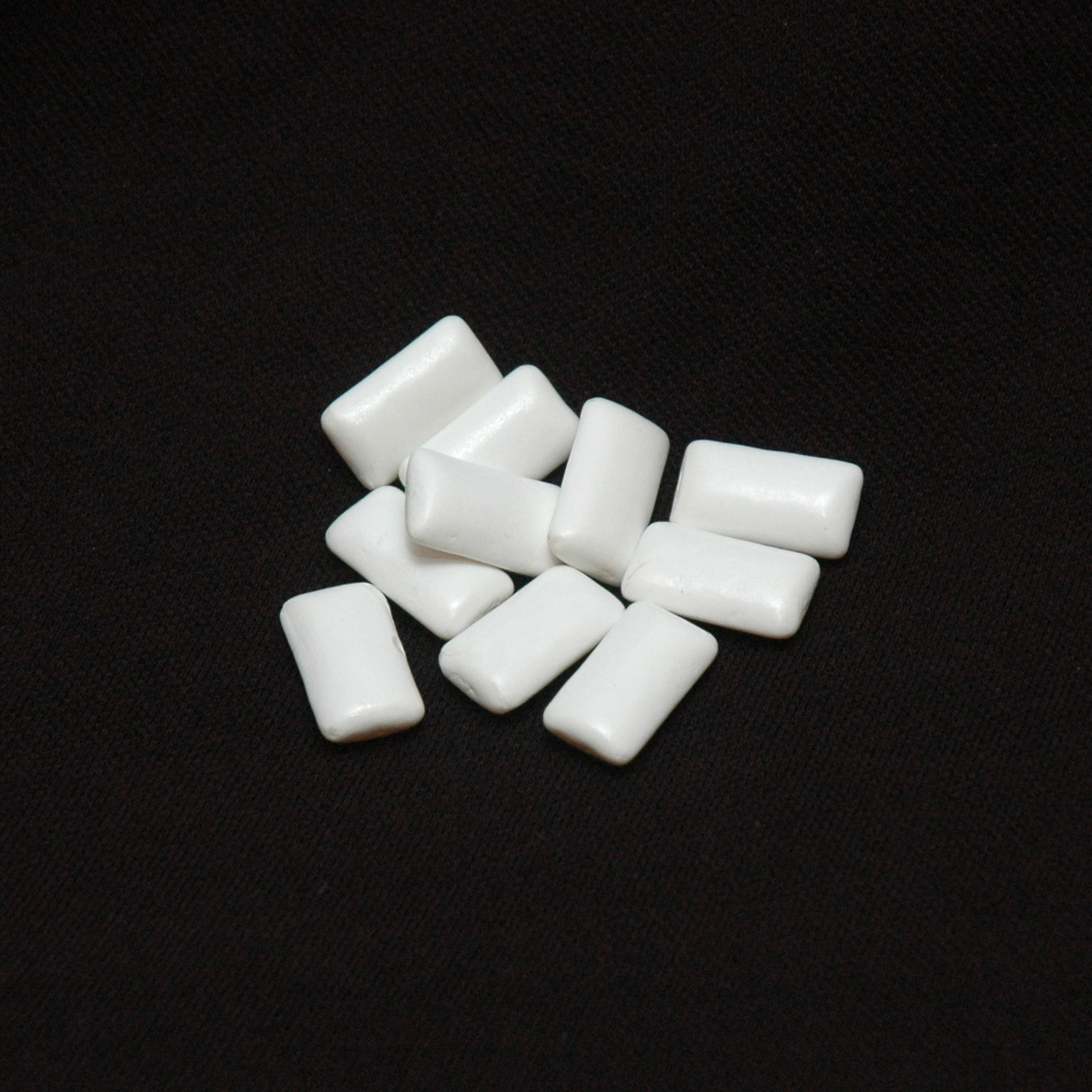 Sugar free chewing gums